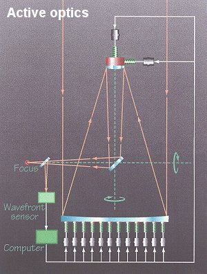 Modern telescopes are re-optimized in real time during operation.